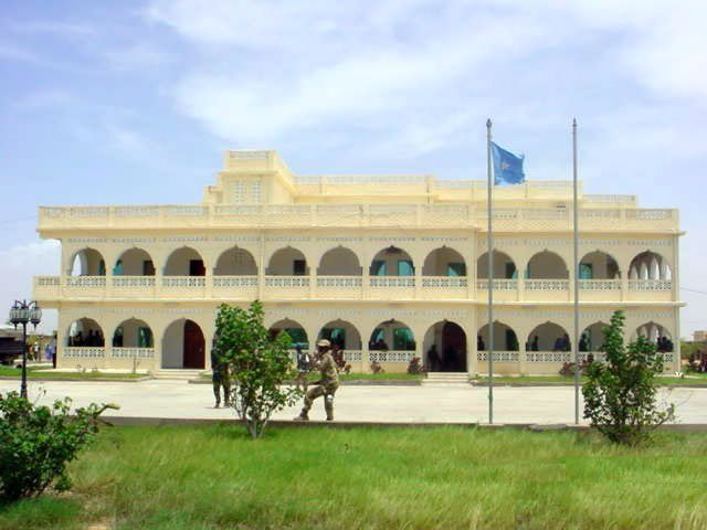 Presidential residence in Garoowe, Puntland, Somalia.